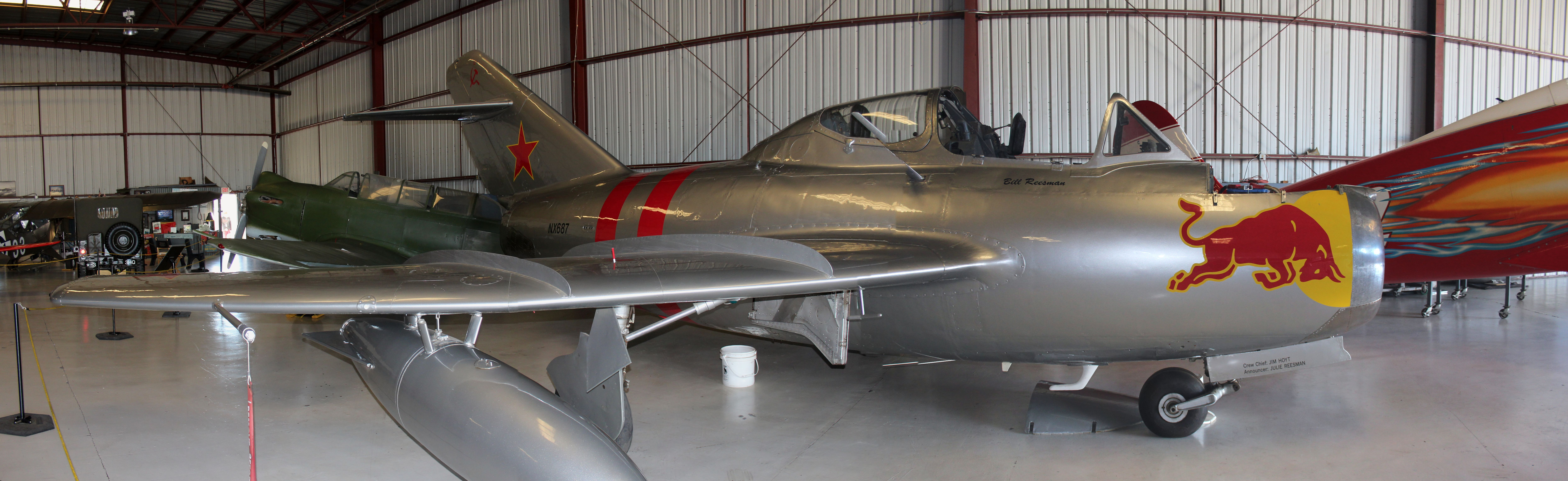 Mig-15 UTI Trainer, Chino Planes Of Fame (Red Bull) Air Museum in flight condition.